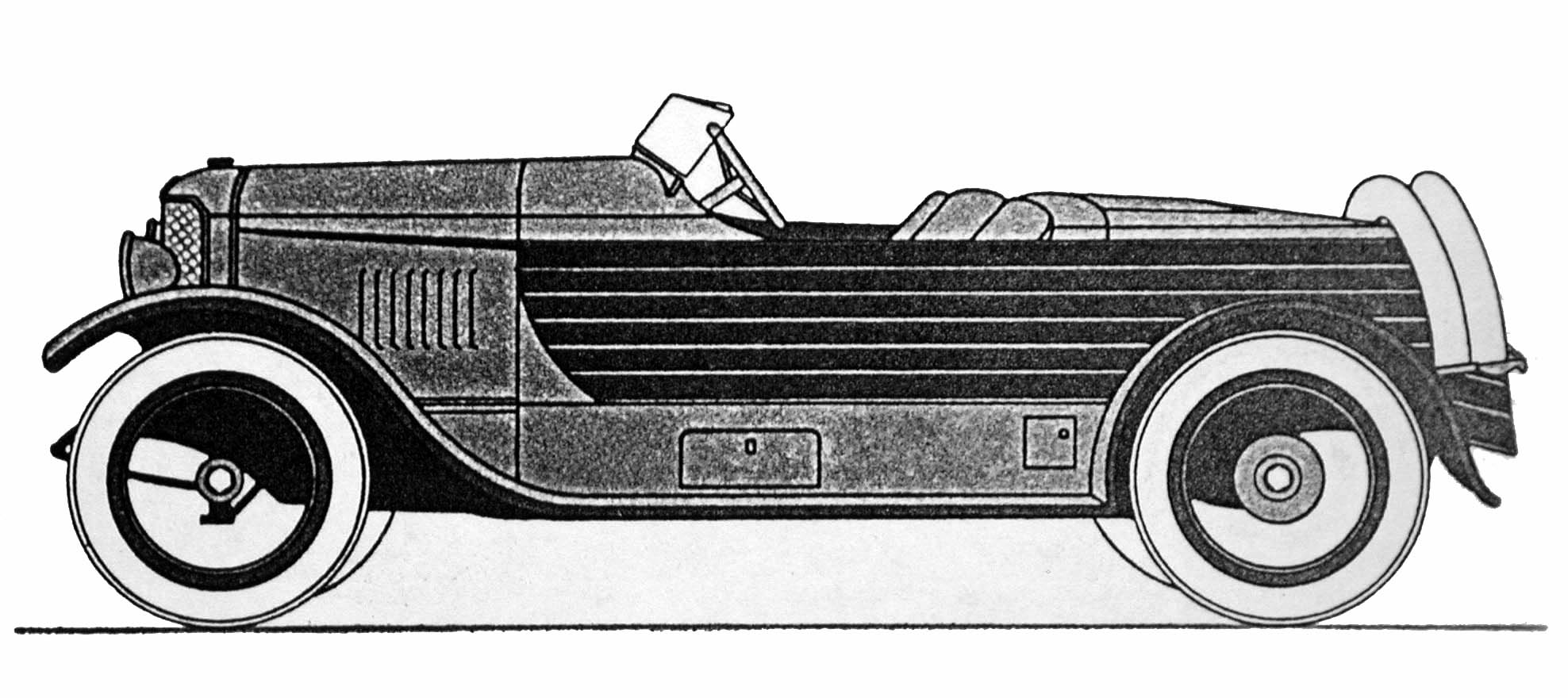 Selve 8/32 PS, 1922-1925, phaéton, carrosserie Kruck-Werk, Frankfort sur le Main